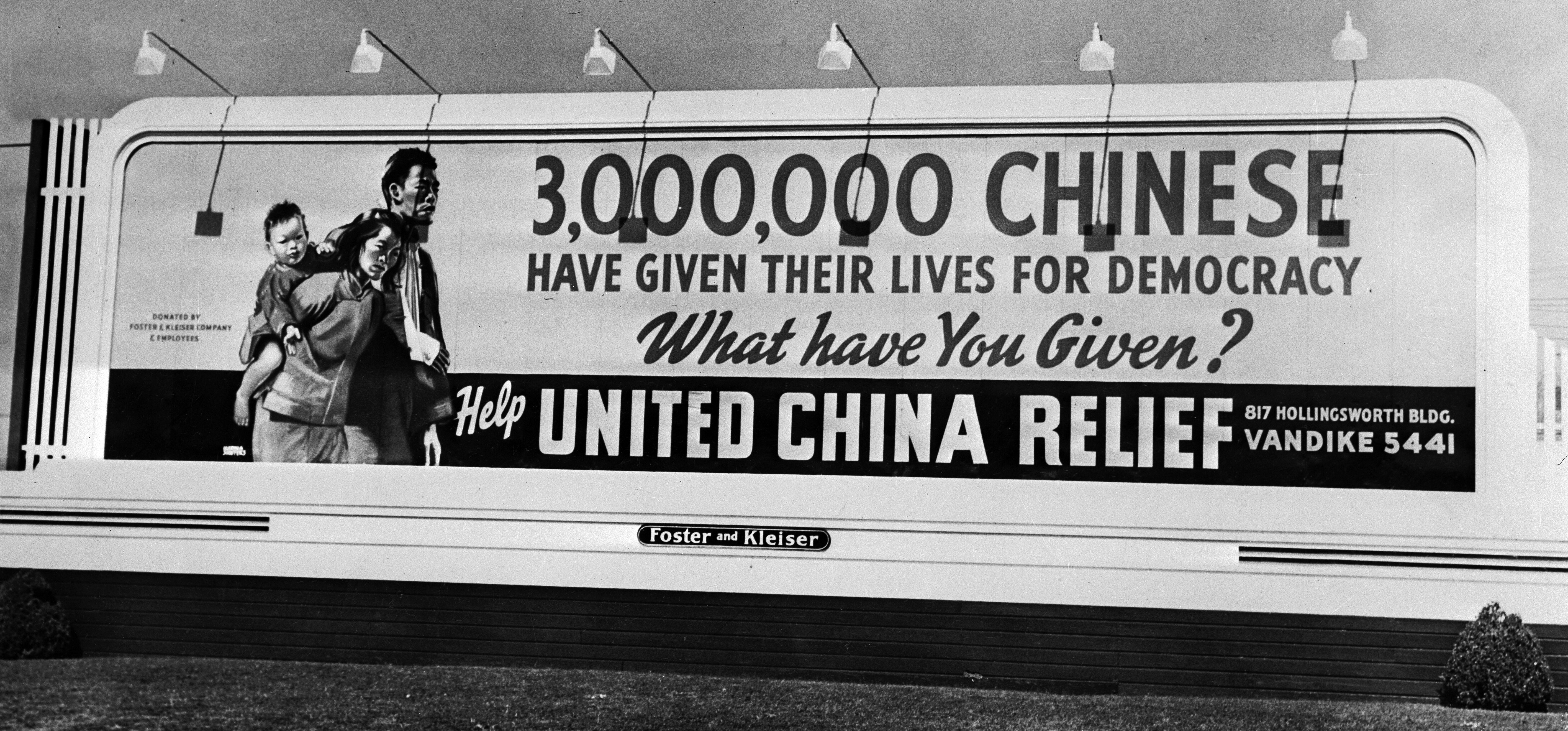 Title: United China Relief billboard Publication:Los Angeles Daily News Publication date:1942 Notes:A billboard for United China Relief. United Service to China was founded as United China Relief on February 7, 1941. Their fund drive in 1942 brought in $7 million dollars for relief in China.